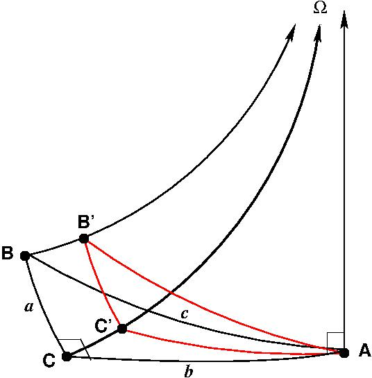 Horosphere used for derivation of hyperbolic trigonometry.